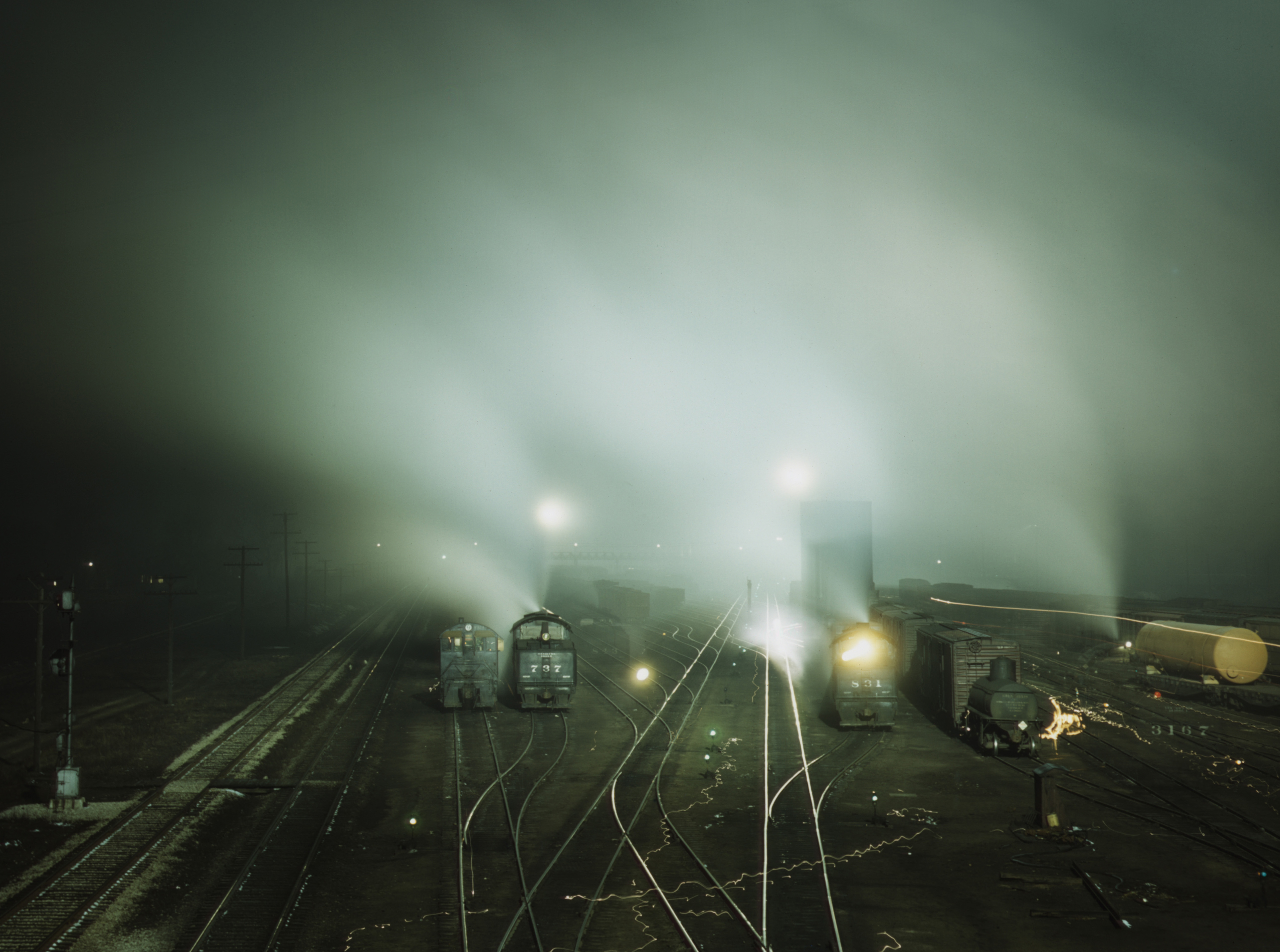 Original, uncropped version TITLE Night view of part of Santa Fe R.R. yard, Kansas City, Kansas CALL NUMBER LC-USW36-656 [P&P] REPRODUCTION NUMBER LC-DIG-fsac-1a34717 (digital file from original transparency) :LC-USW361-656 (color film copy slide) RIGHTS INFORMATION No known restrictions on publication. MEDIUM 1 transparency : color. CREATED/PUBLISHED 1943 March CREATOR Delano, Jack(w), 1914- photographer. NOTES :Transfer from U.S. Office of War Information, 1944. :Title from FSA or OWI agency caption. SUBJECTS :Atchison, Topeka and Santa Fe Railroad(w) :World War, 1939-1945 :Railroad shops & yards :Night :United States--Kansas--Kansas City FORMAT Transparencies Color PART OF Farm Security Administration - Office of War Information Collection 12002-5 REPOSITORY Library of Congress Prints and Photographs Division Washington, D.C. 20540 USA DIGITAL ID (digital file from original transparency) fsac 1a34717 CONTROL # fsa1992000764/PP